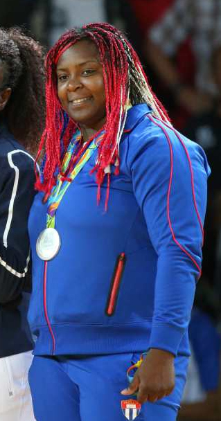 Medallists in female judo of +78 kg at the 2016 Summer Olympic Games. Emilie Andeol, France - gold. Idalys Orti, Cuba - silver. The Chinese woman of Song Yu and the Japanese of Kanae Yamabe - bronze.